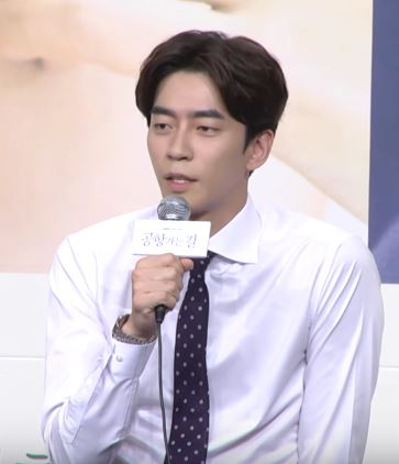 Actor Shin Seong-nok (also spelled Shin Sung-rok)